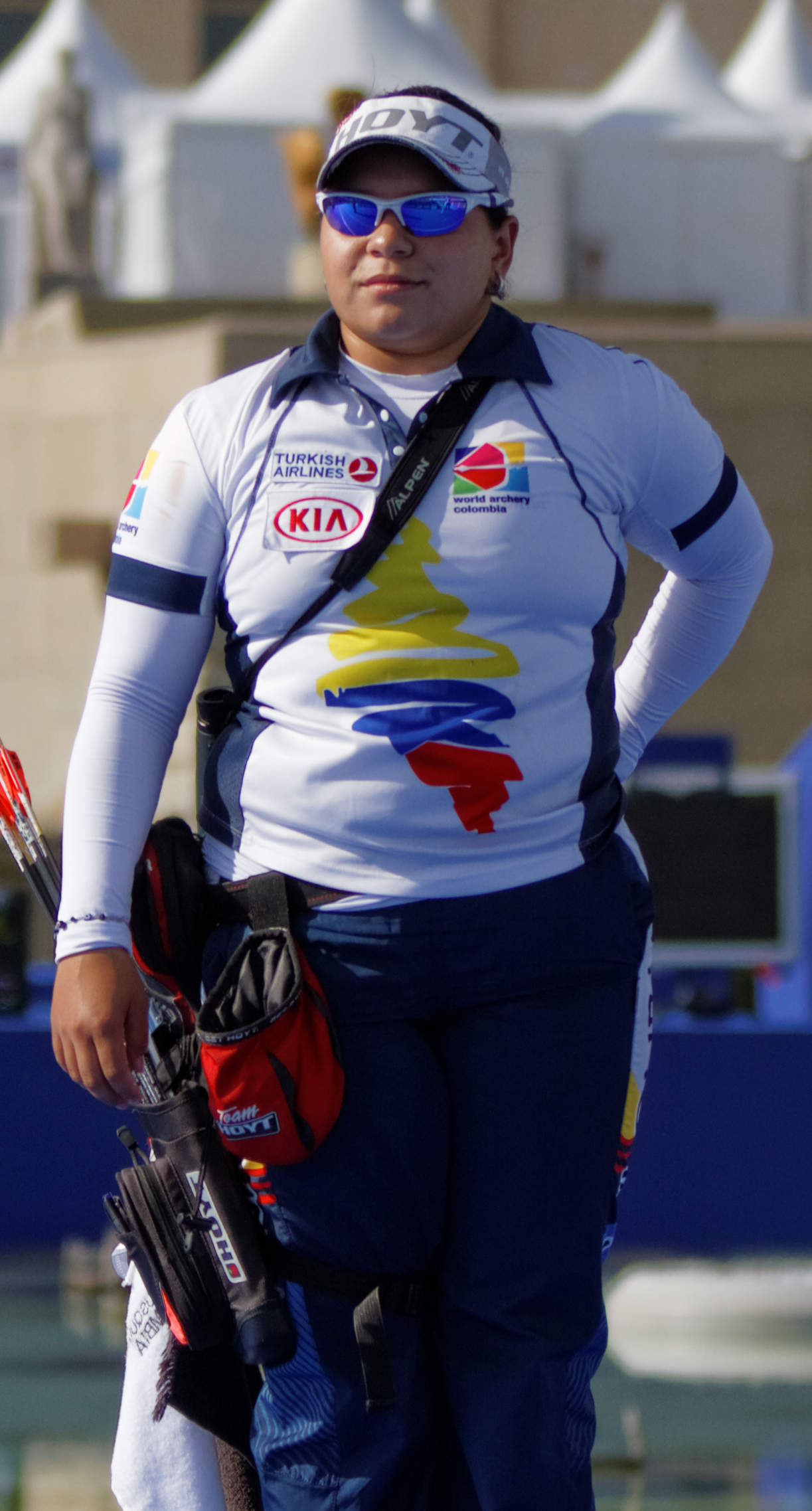 2013 FITA Archery World Cup, Paris, France. Women's individual compound final: Alejandra Usquiano vs Erika Jones.